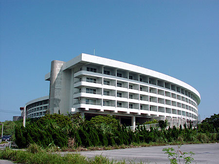 Former Okinawa Hilton(present-day "EM Wellness centre & Hotel Costa Vista Okinawa")